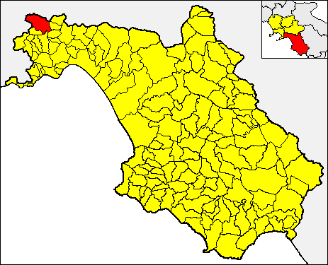 Locator map of the municipality of Sarno (red) within the Province of Salerno